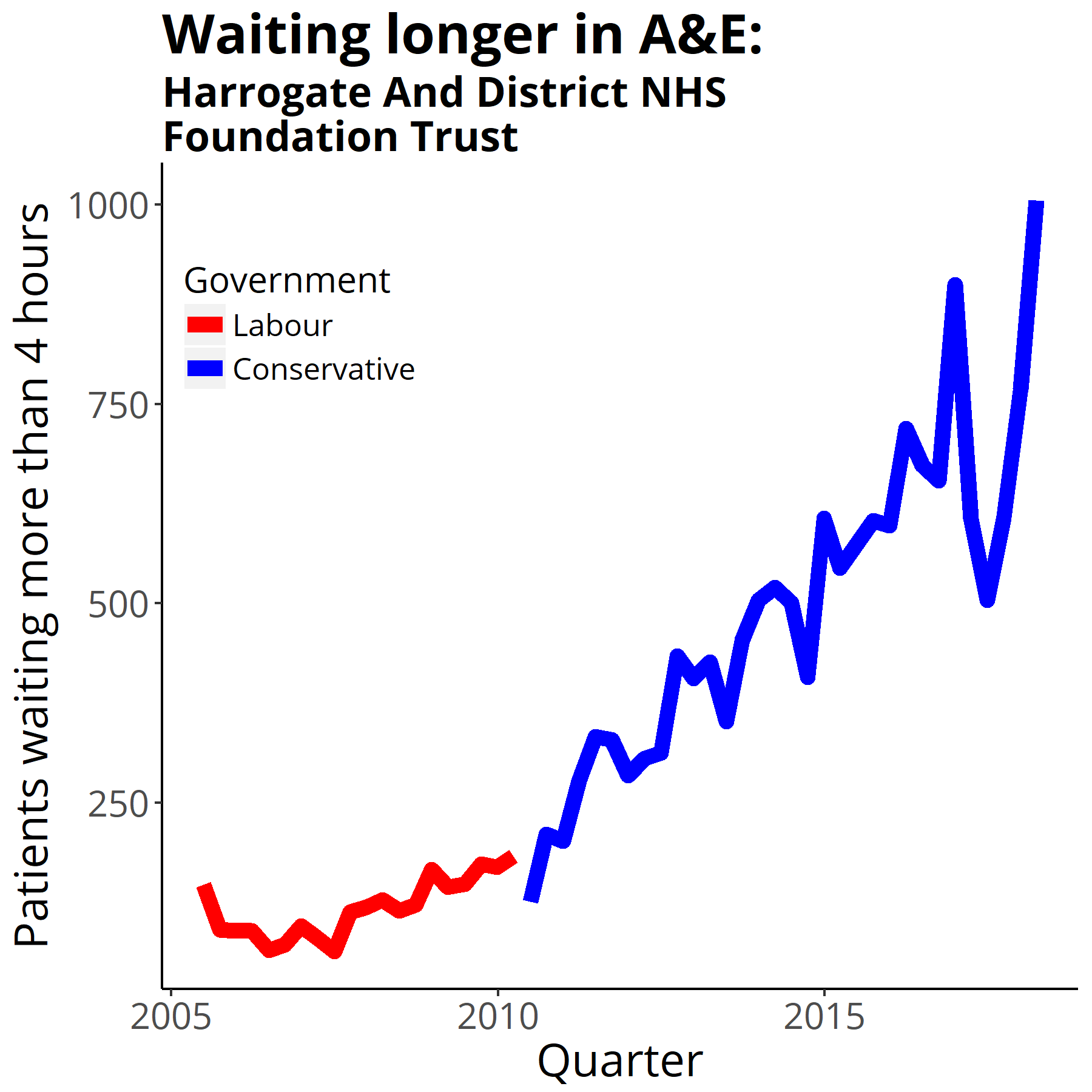 Four-hour target in the emergency department quarterly figures from NHS England Data from